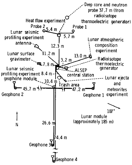 Arangement for Apollo 17's ALSEP. Apollo lunar surface experiments package and neutron probe deployment.